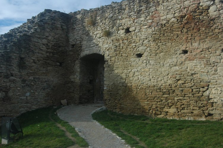 City walls, Skalica, Slovakia